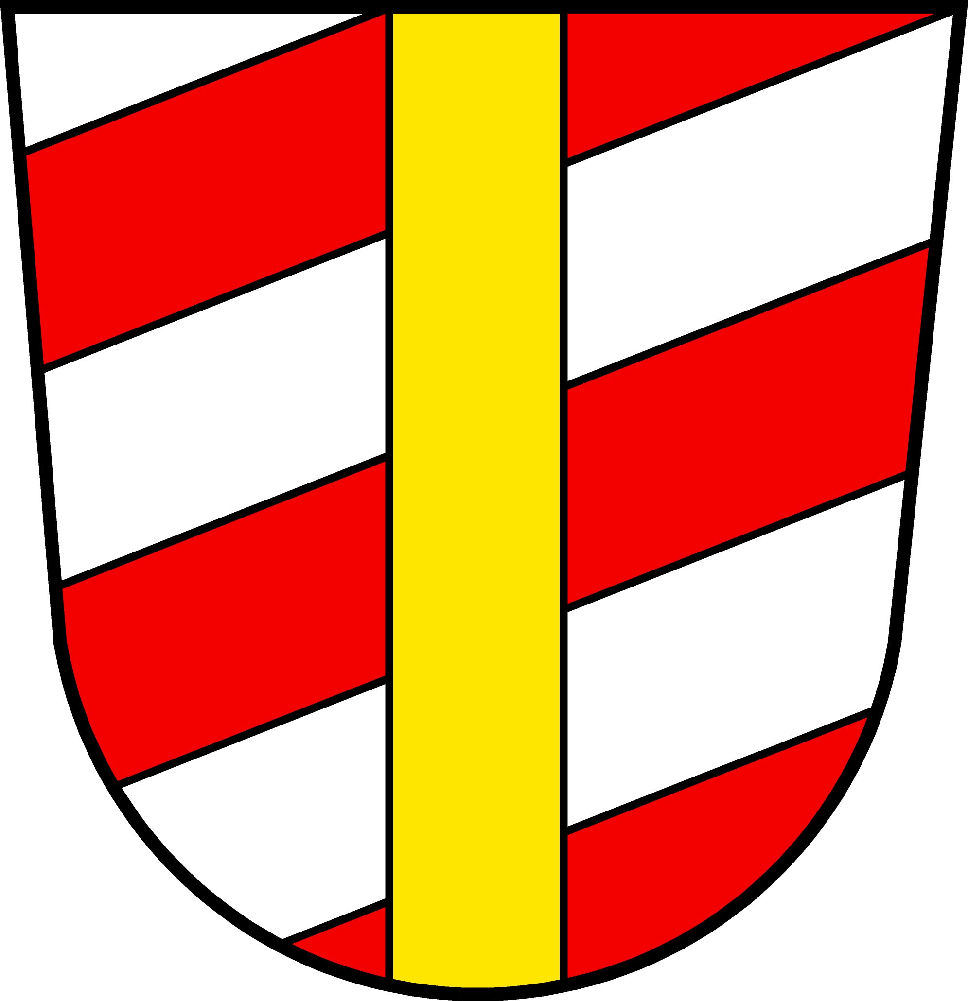 Coat of arms of the margraviate of Burgau (Swabia). Blazon: Argent, three bends sinister gules, a palet or.